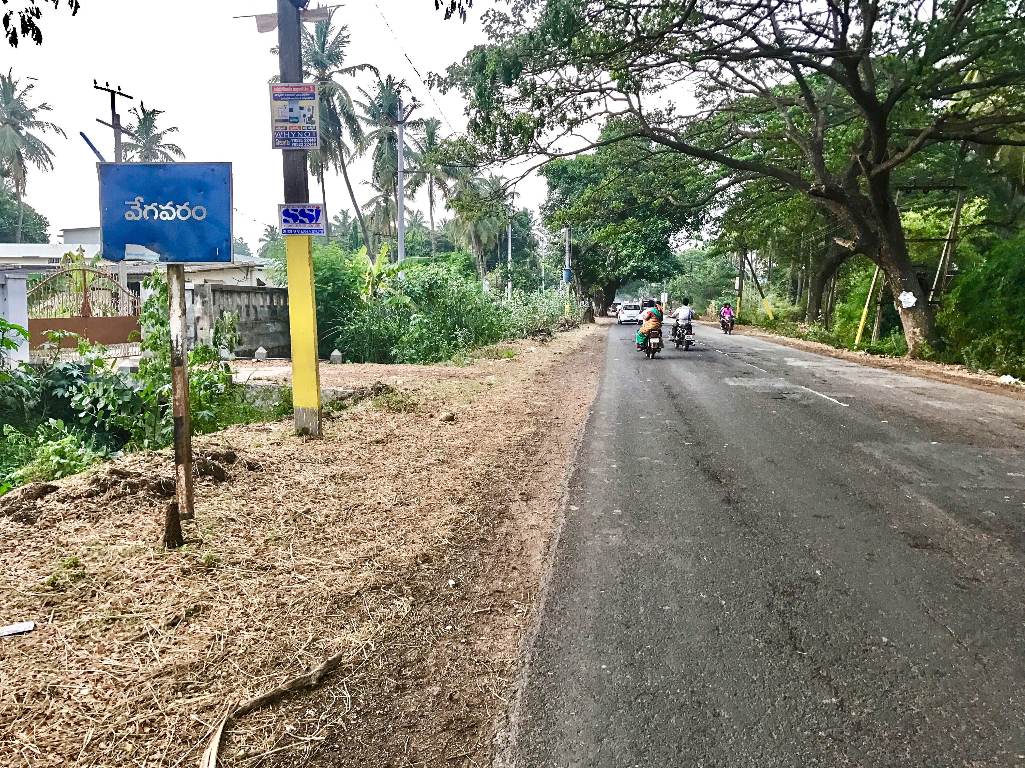 Vegavaram Village board on Jangareddygudem road